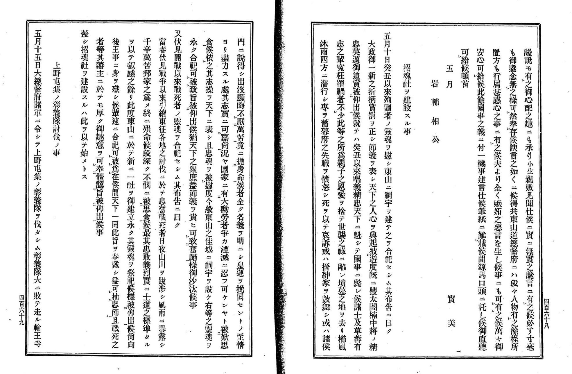 Notes by Tomomi Iwakura about establishing Shokonsha (招魂社), the antecedent company of the Yasukuni Shrine.